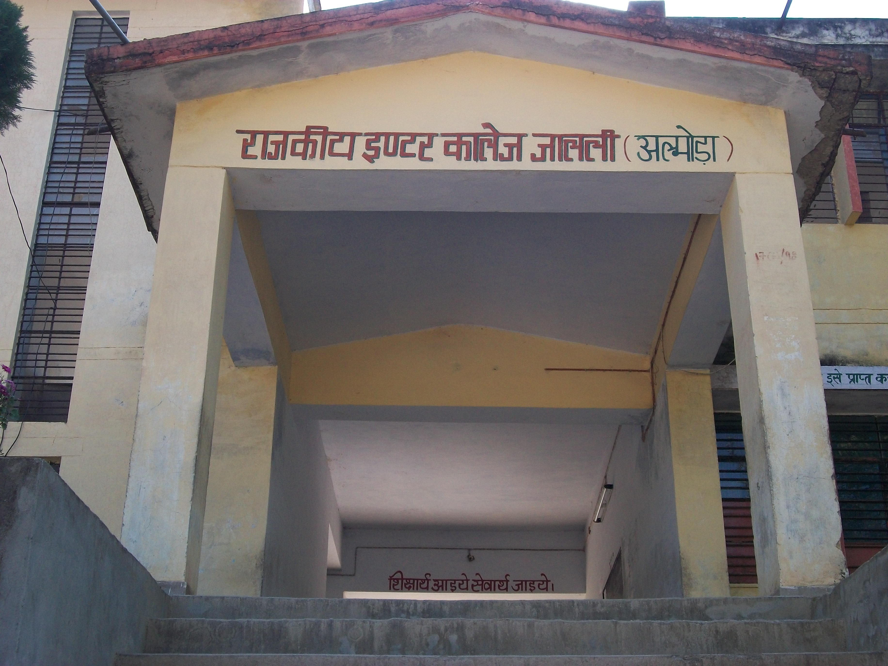 COLLEGE